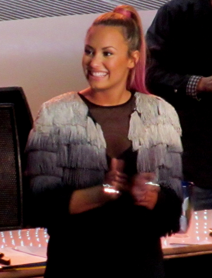 Demi Lovato at the X-Factor US, in June 2012.